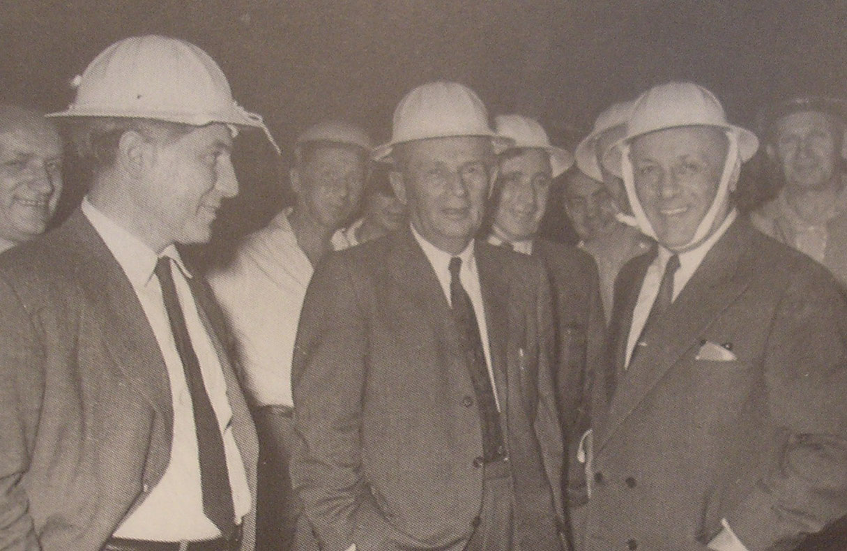 photo taken around 1958 and released to the PD by the photographer. Deror avi has scan it and uploaded it on he wikipedia.